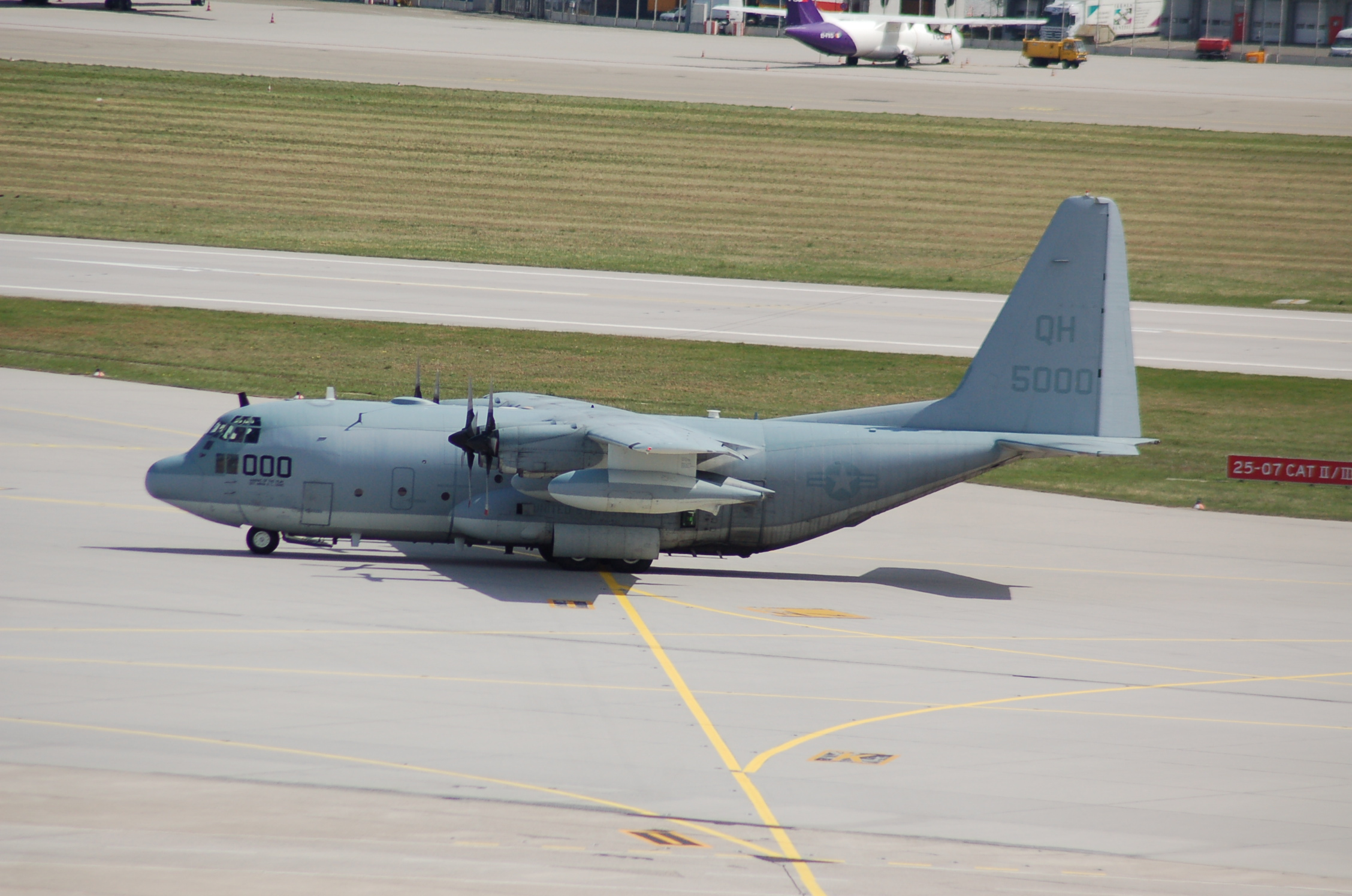 Lockheed KC.130T of the U.S. Marine Corps. coded QH at Stuttgart-STR,19/04/12.